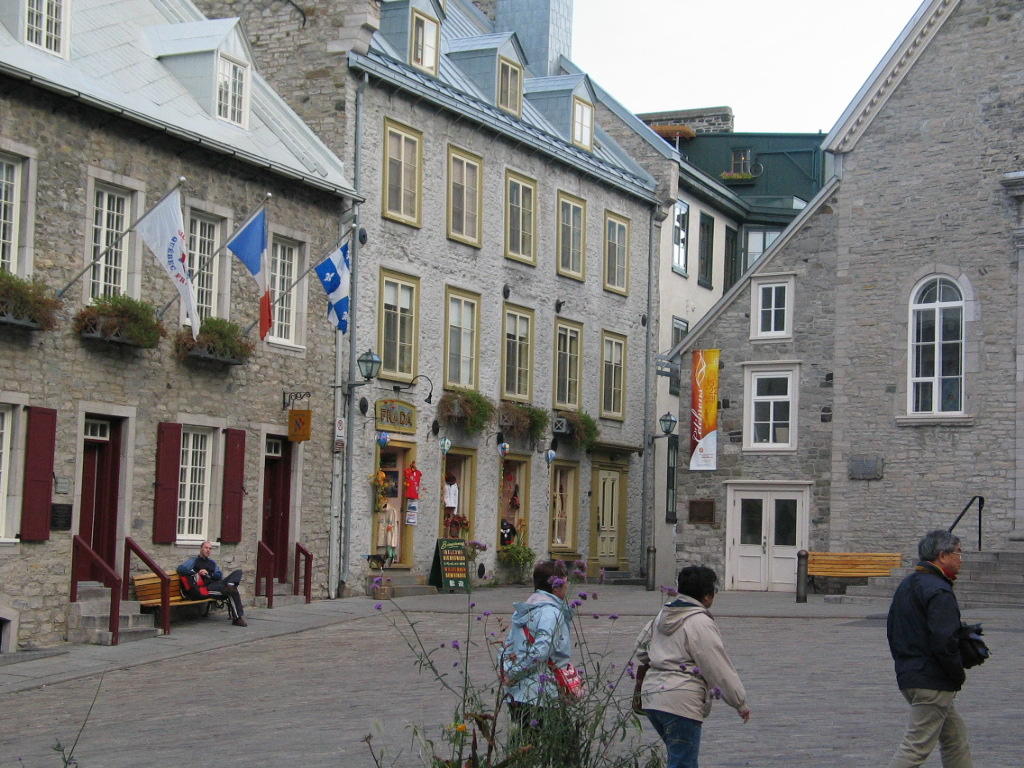 Among the lower town of the Quebec City